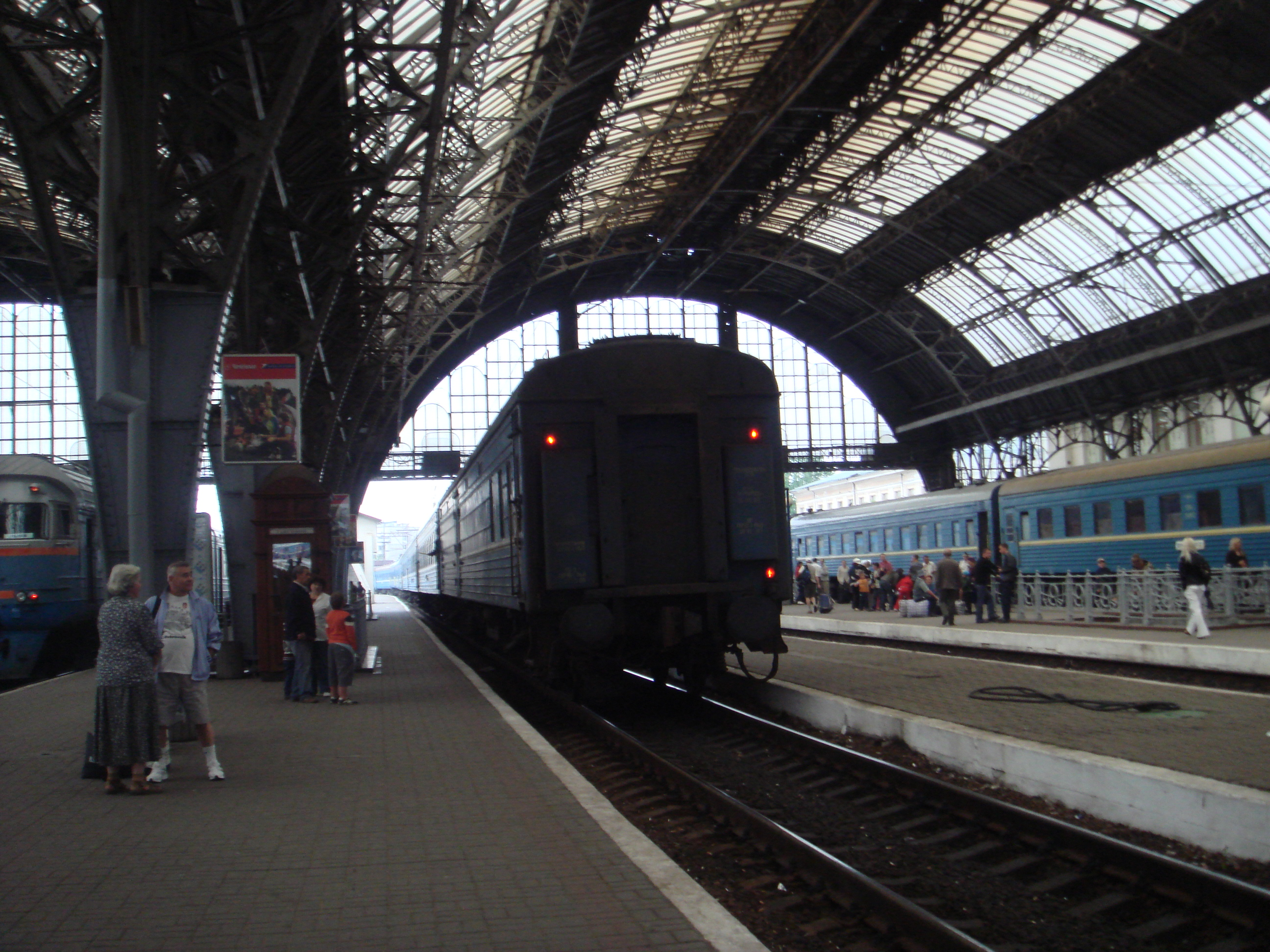 Lviv Passenger Railway Station. A design for the registers was constructed in Zieleniewski Maschinen und Wagonbau-Gesellschaft Werk Sanok, Autosan)